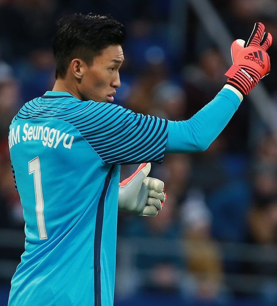 Kim Seung-gyu